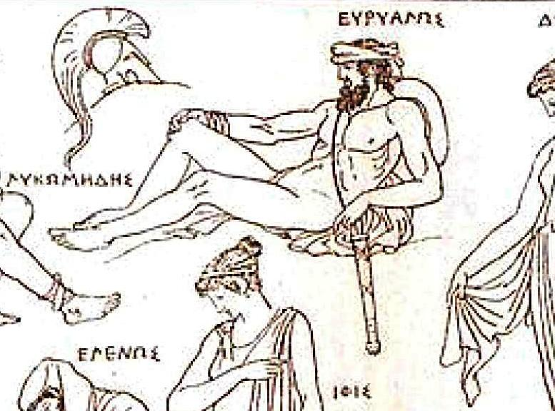 Detail form Reconstruction of Iliupersis.